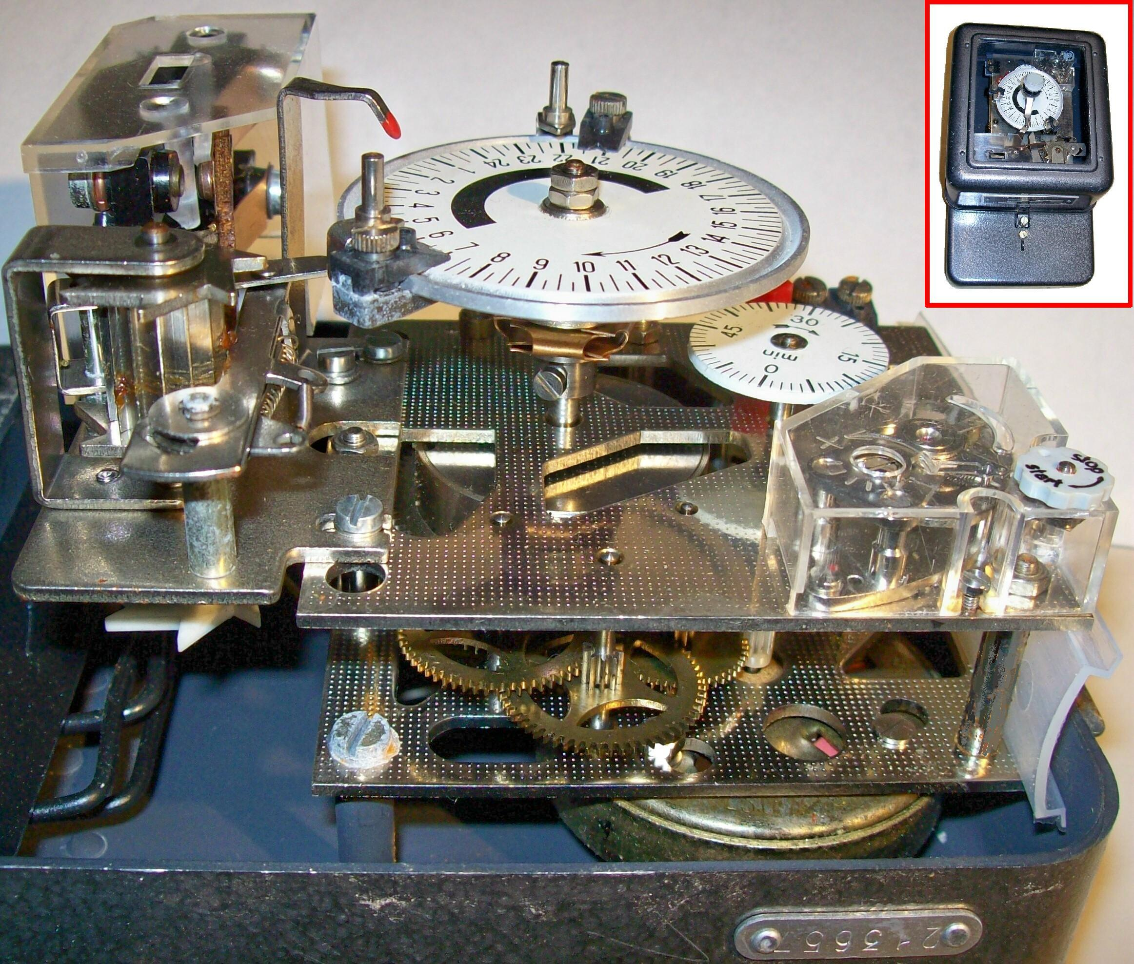 Time switch clock with balance wheel movement and 50 hour reserve